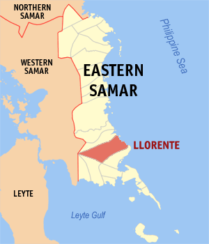 Map of Eastern Samar showing the location of Llorente